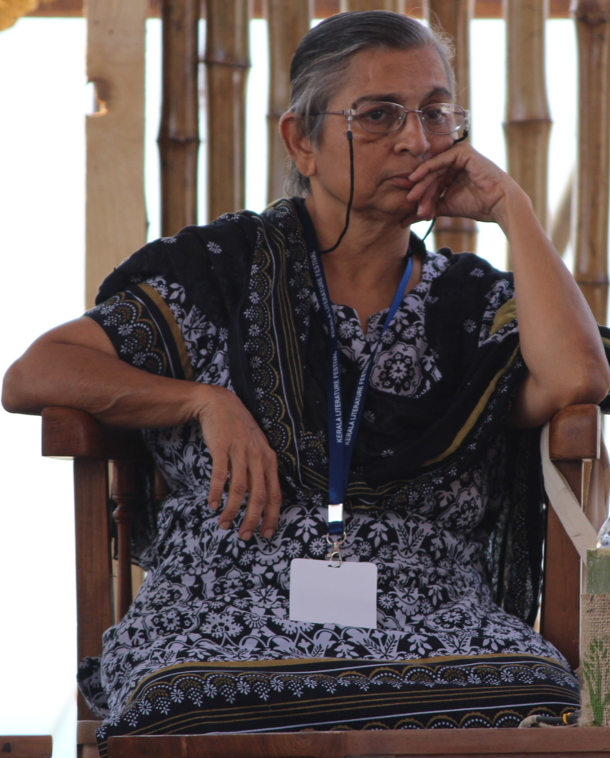 K. Ajitha (born 1950) is a social activist of Calicut, Kerala. Ajitha was indoctrinated to Marxism at a very young age through her parents to Kunnikal Narayanan and Mandakini, who were both its prominent supporters . She is one of the greatest lady who is fighting for women's freedom from Calicut, Kerala.She played an active role in the Naxalite movement of Kerala. In 1968, her group began their armed struggle. They conducted some armed raids in Pulpally which resulted in the death of two police officials.She was soon arrested along with most of her accomplices.She was tried for her crimes and was given Nine years Imprisonment